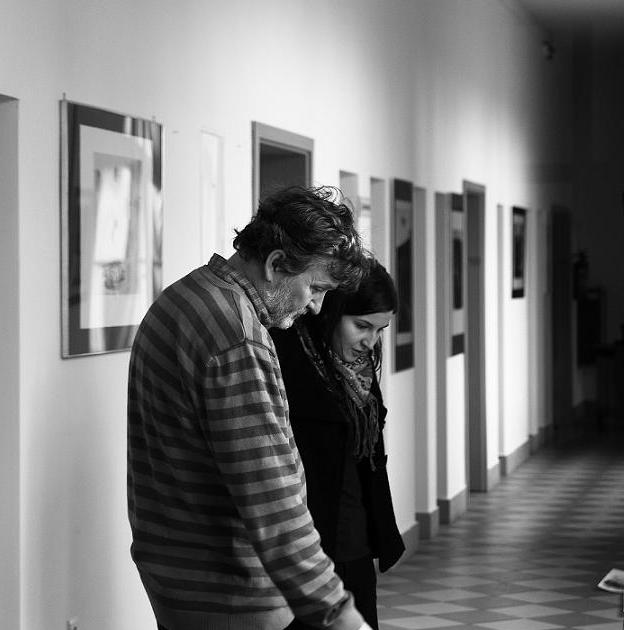 Polish artist Mariusz Pałka